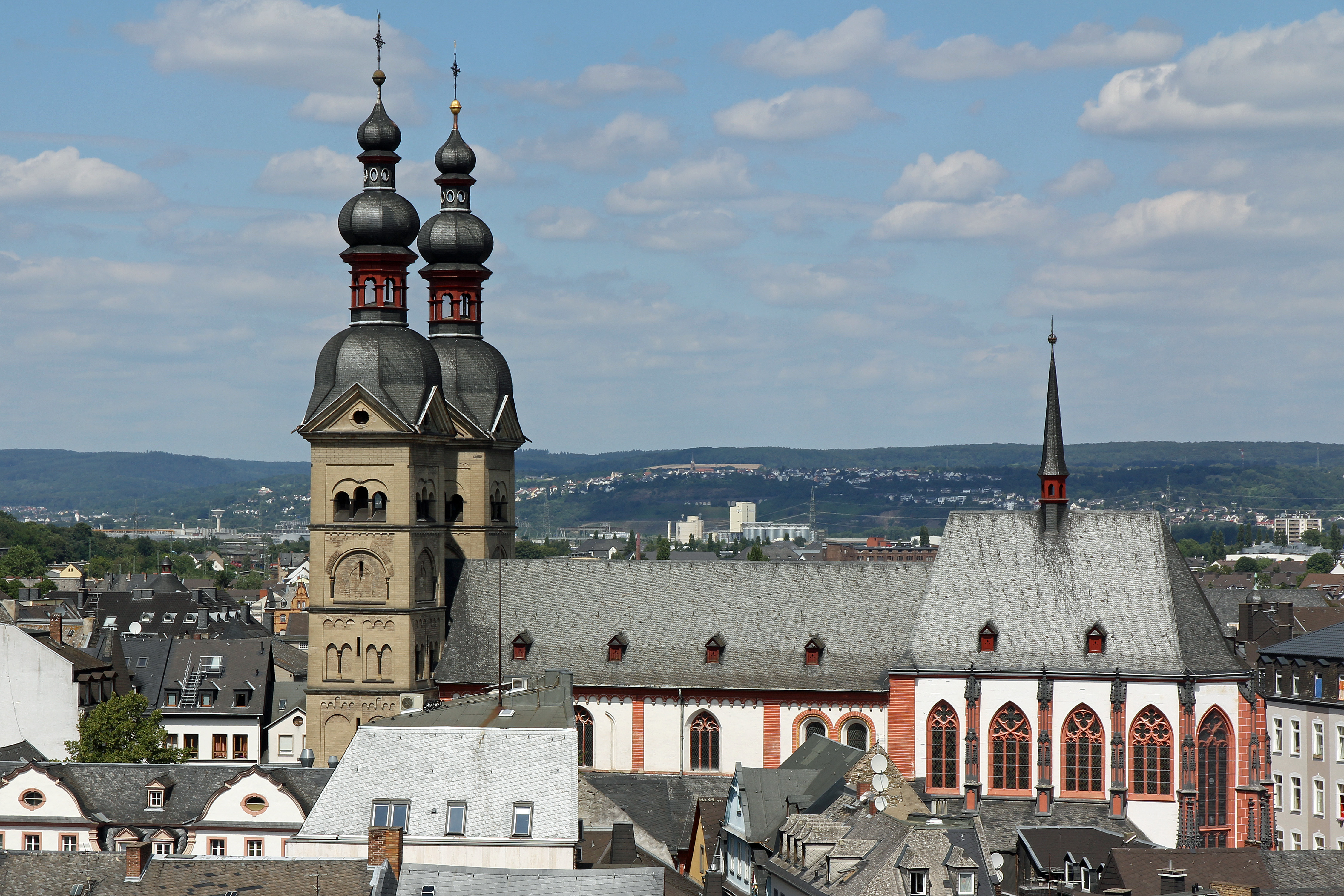 Our Lady church in Koblenz